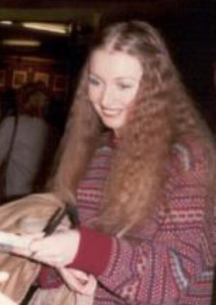 Mary Hopkin backstage at the Hexagon Theatre in Reading Christmas 1980 when she appeared in "Rock Nativity"